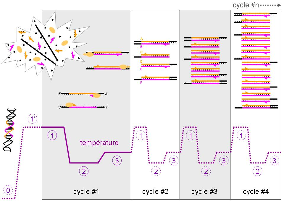 PCR basic principle with component status versus temperature transition. For complete description, please see Polymerase chain reaction french Wikipédia article. This potential class is PCR, enzymology reaction, molecular biology. For other similar graph, you can see my Commons Gallery! This graph should be available in vectoriel format in some months.